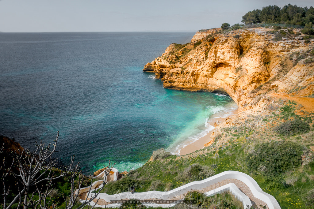 500px provided description: Carvoeiro 2170521 [#Nature ,#Landscape ,#Travel ,#Beach ,#Summer ,#Water ,#Blue ,#Seascape ,#Sea ,#Europe ,#Portugal ,#Algarve ,#Coastline ,#Outdoors ,#Atlantic Ocean ,#Tourism ,#Cliff ,#Famous Place ,#Scenics ,#Vacations ,#Carvoeiro ,#GEO ,#zczo ,#Rock - Object ,#Natureza & Paisagens ,#Paisagem Natural]